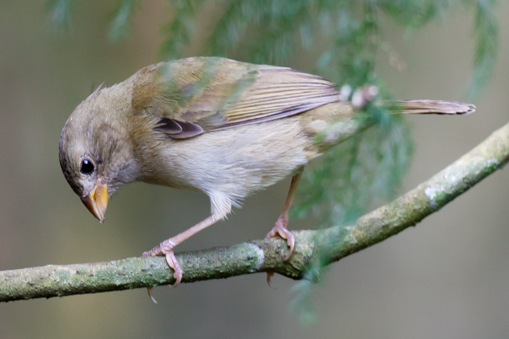 Taken at the Rocklands Bird Sanctuary in Jamaica. For more pictures of the yellow-faced grassquit, visit